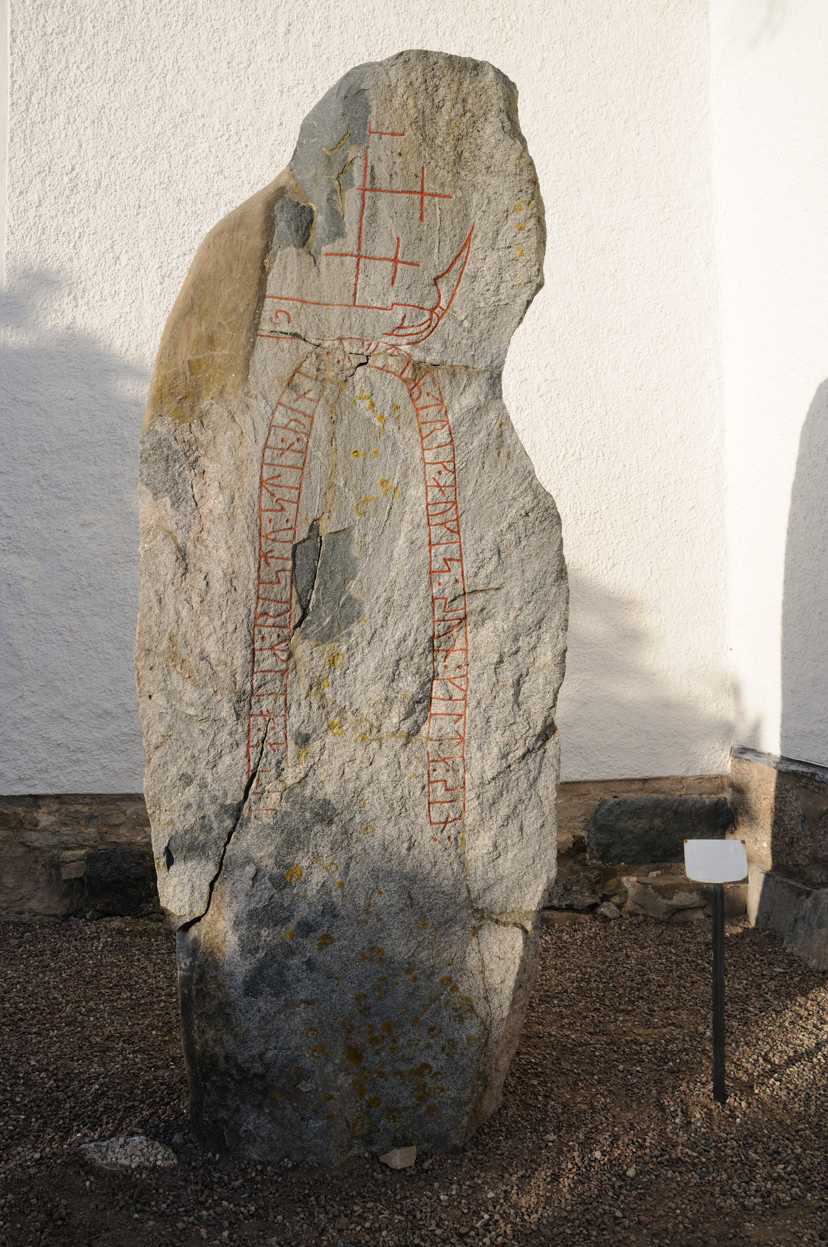 Rune stone Ög MÖLM1960;230.